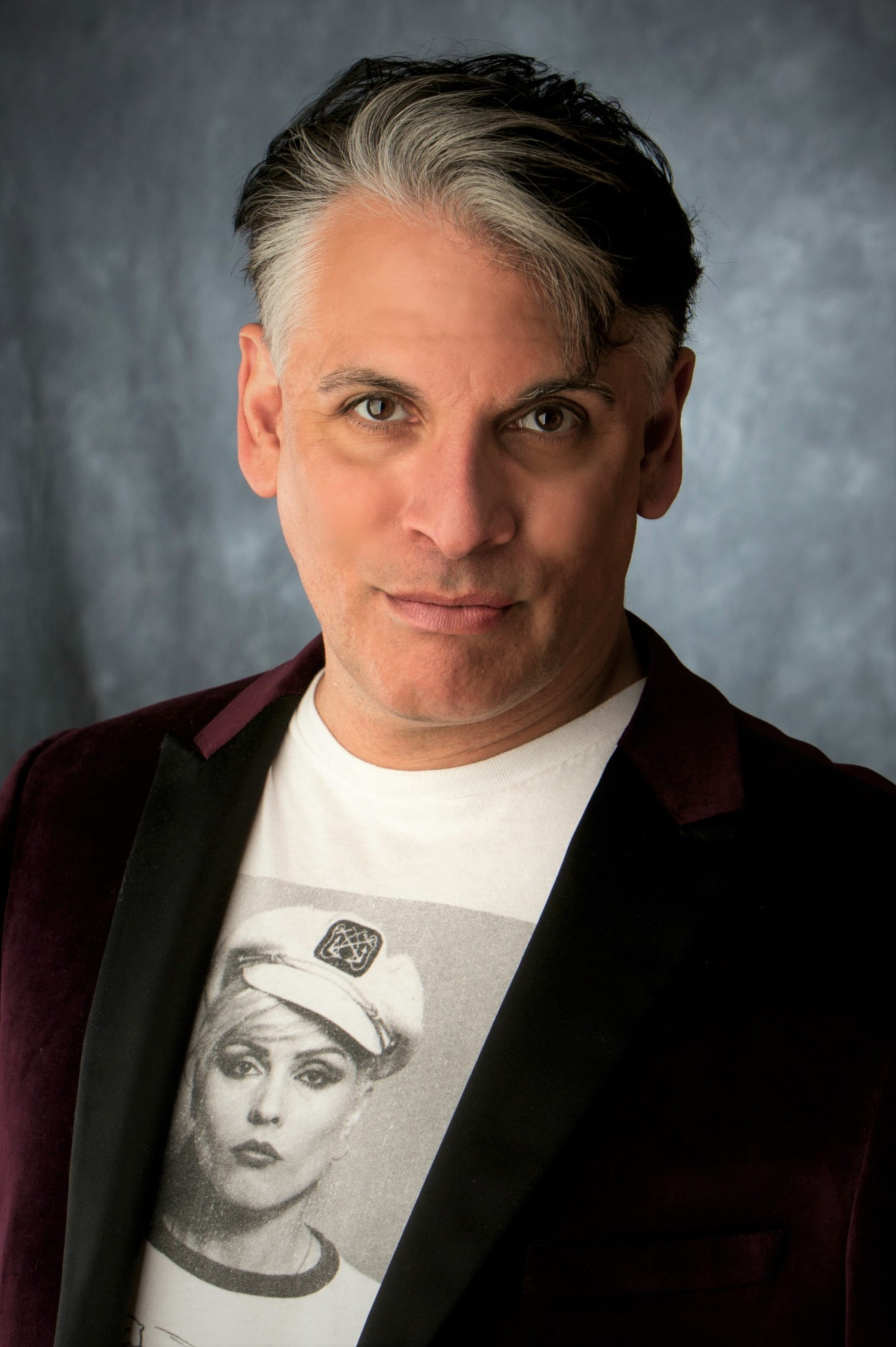 David Cerda by Rick Aguilar Studios